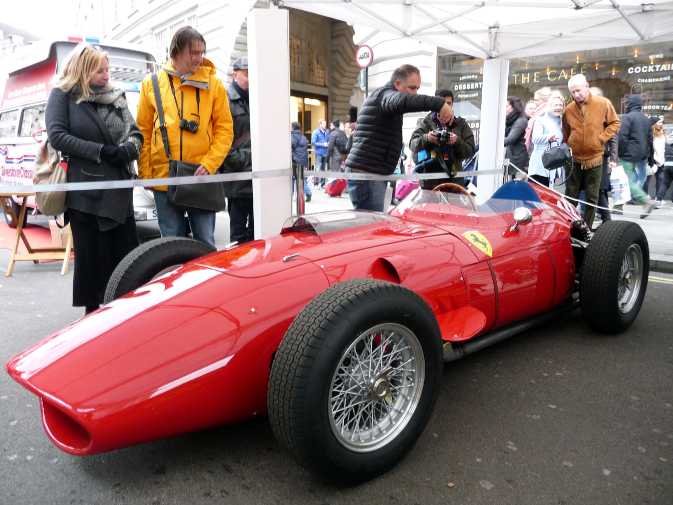 Ferrari 246 F1 in the Regent Street Motor Show 2016.